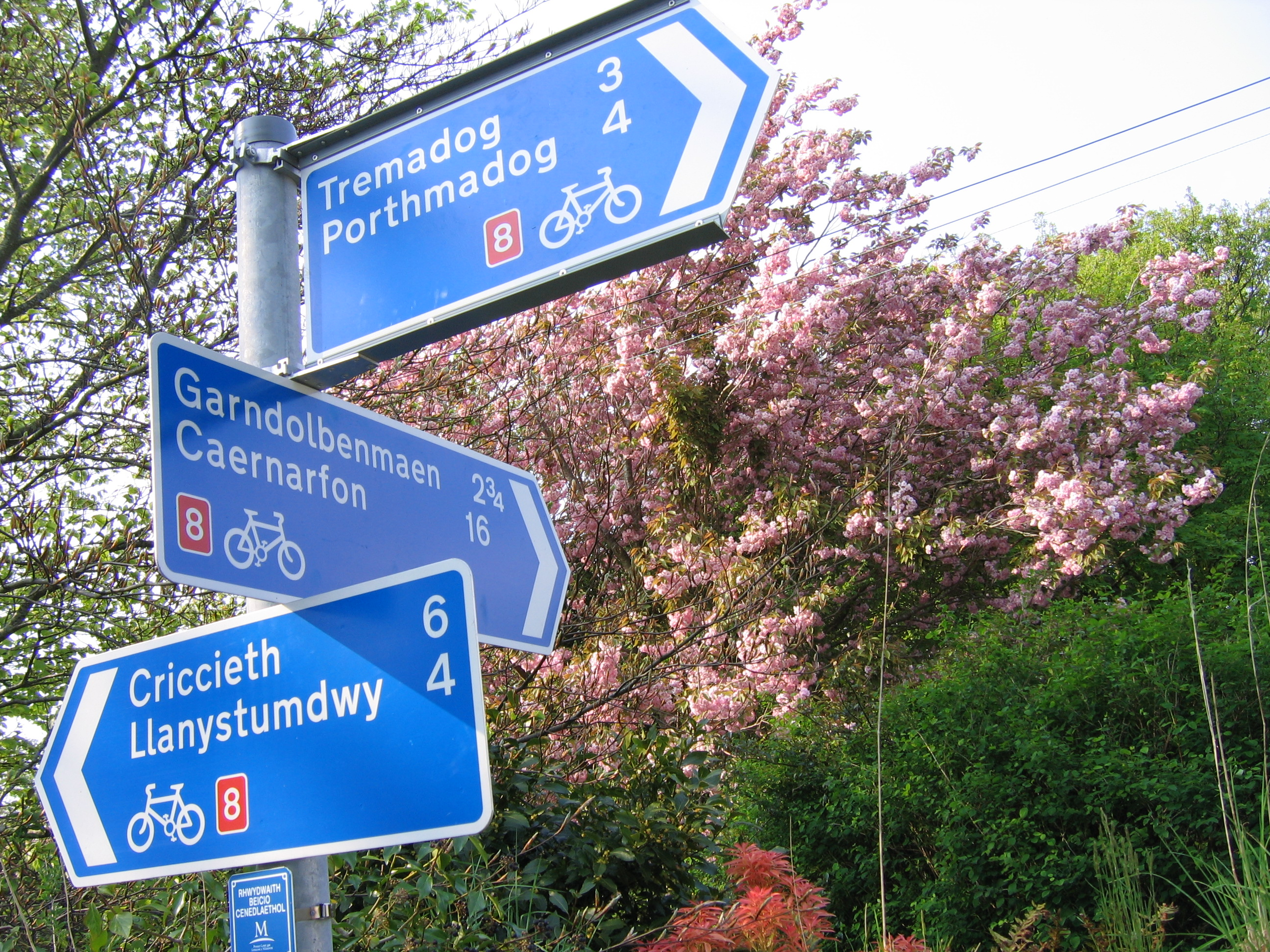 UK National Cycle Network, Route 8, Wales: Tremadog, Porthmadog, Caernarfon, Criccieth